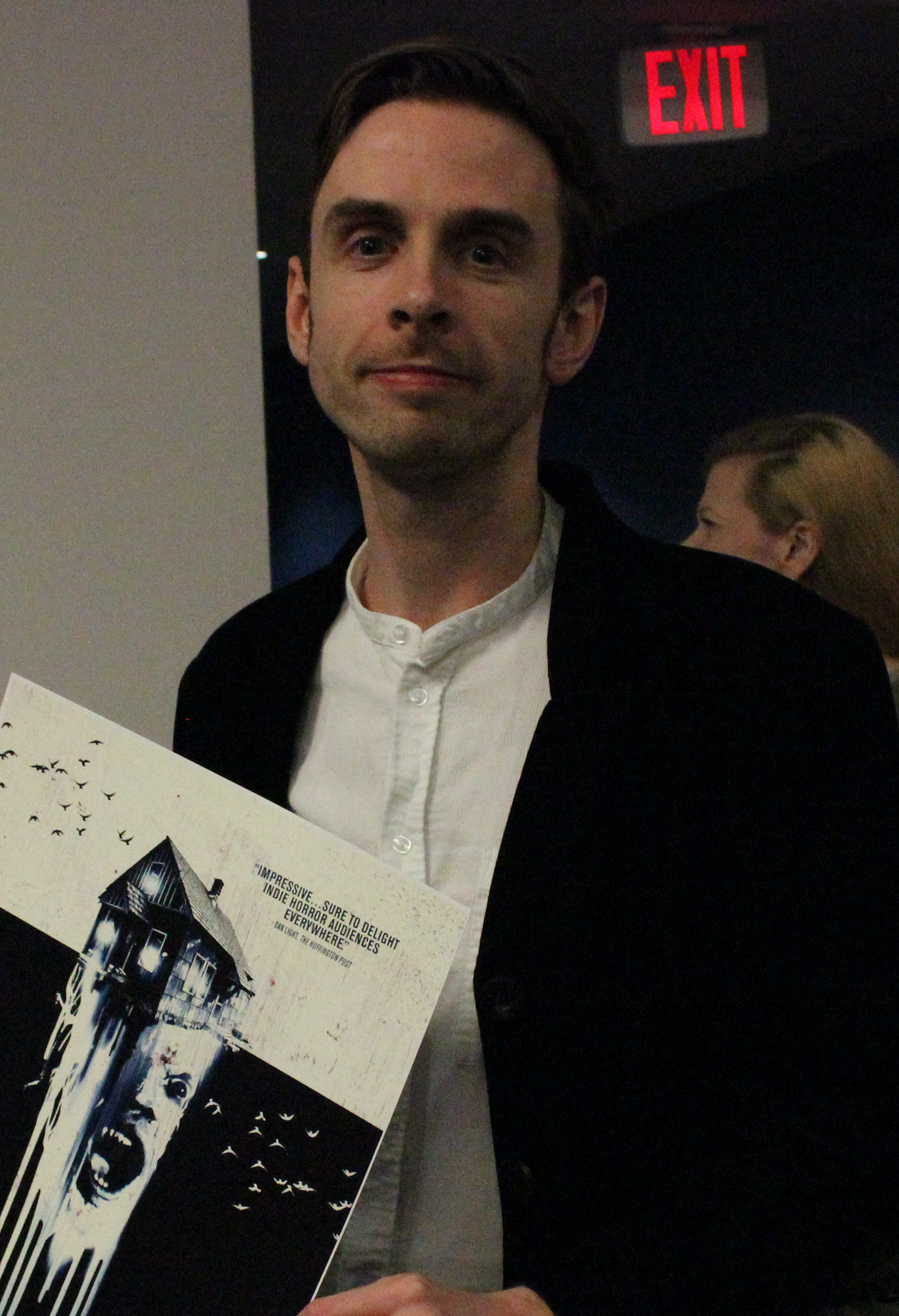 Patrick Meaney at the House of Demons LA premiere on February 2nd, 2018